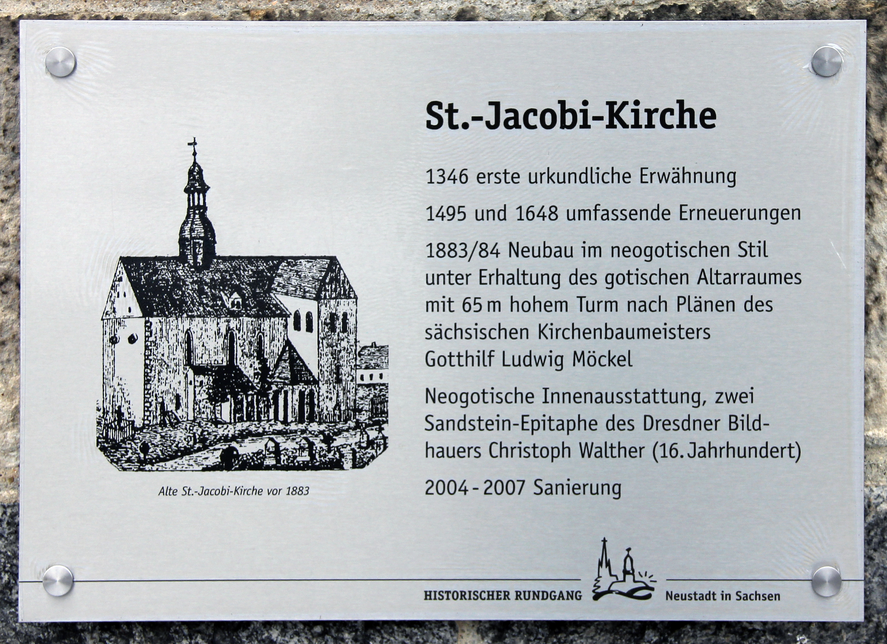 Memorial plaque, St.-Jacobi-Kirche, Kirchplatz, Neustadt in Sachsen, Germany